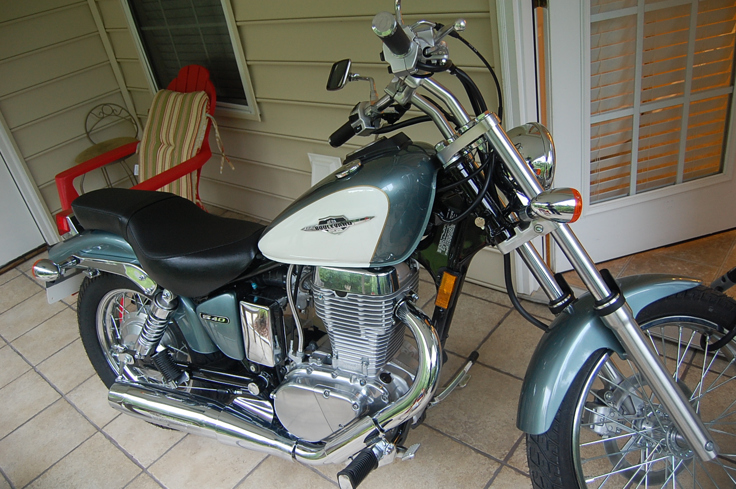 Suzuki Boulevard 2011 Silver